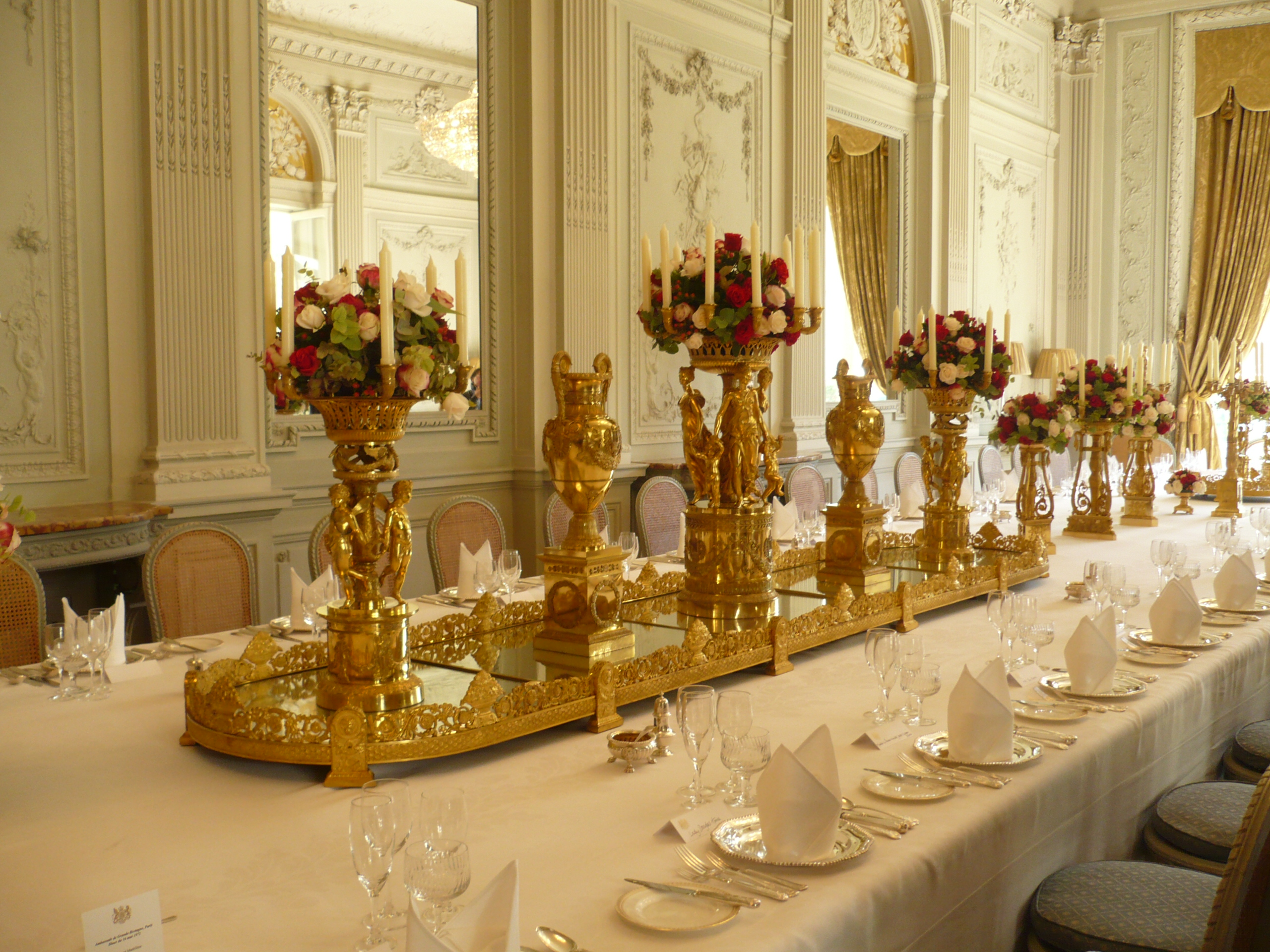 Hôtel de Charost, home of the ambassador of Great Britain, 39 rue du Faubourg Saint-Honoré, Paris, France : Gold pieces from diner room